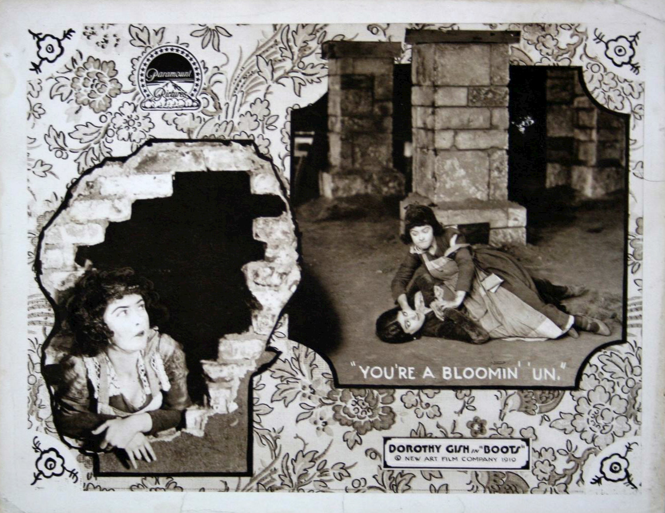 Lobby card for the American comedy film Boots (1919).